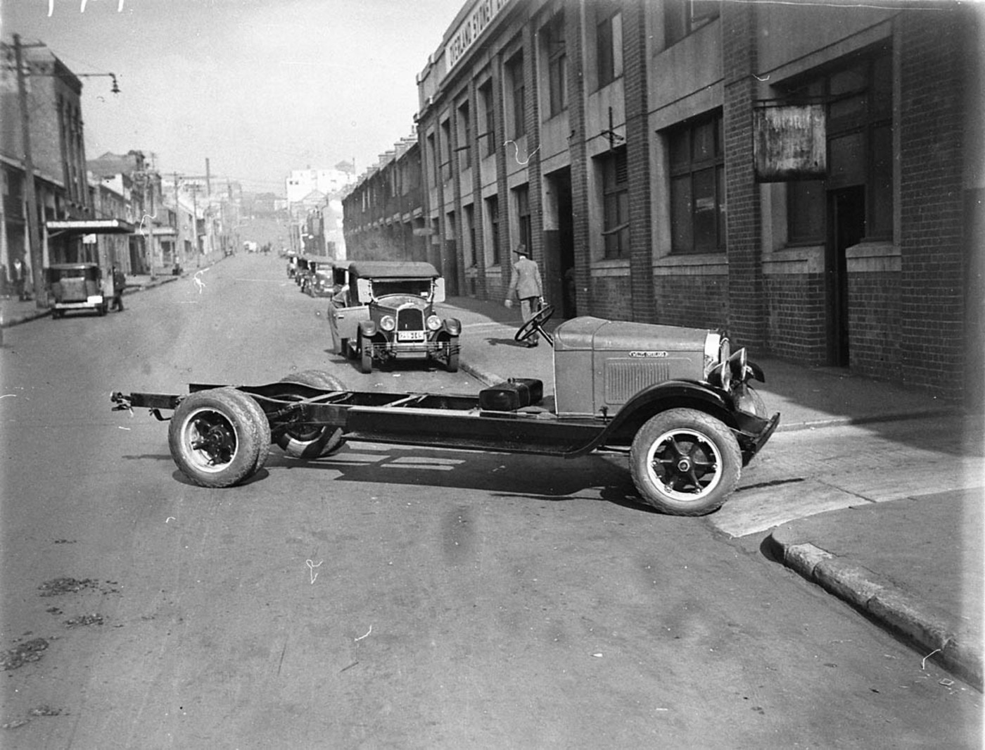 Truck chassis; Willy's Knight sedan behind